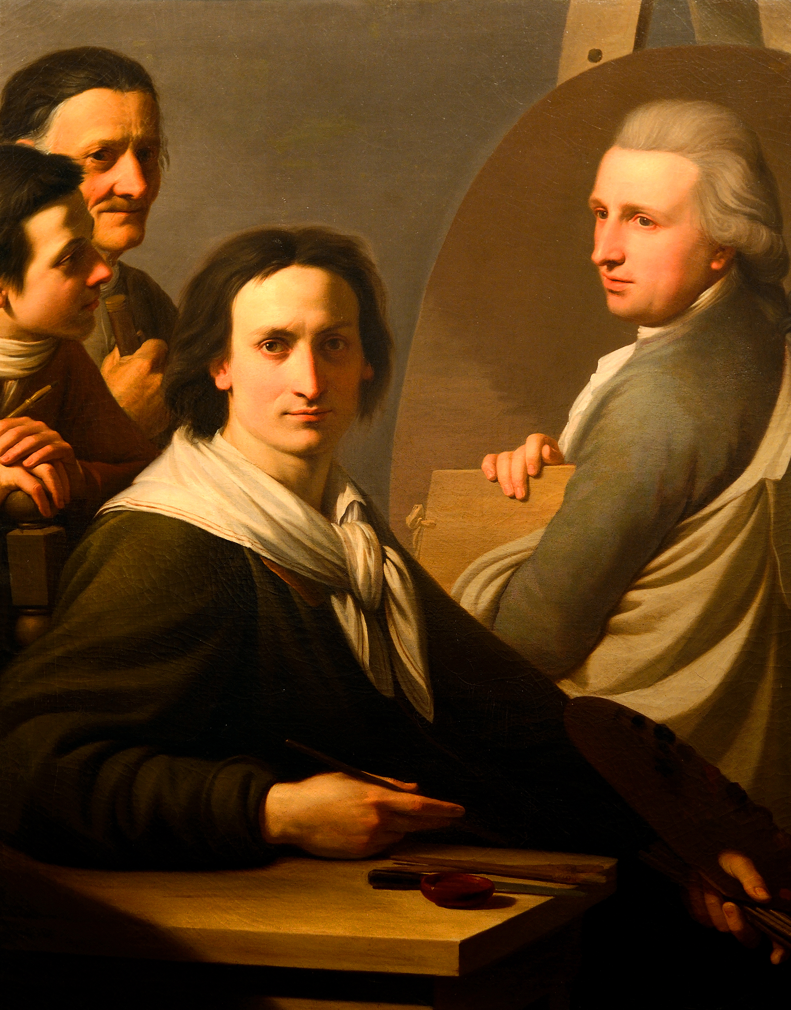 Stefano Tofanelli Family